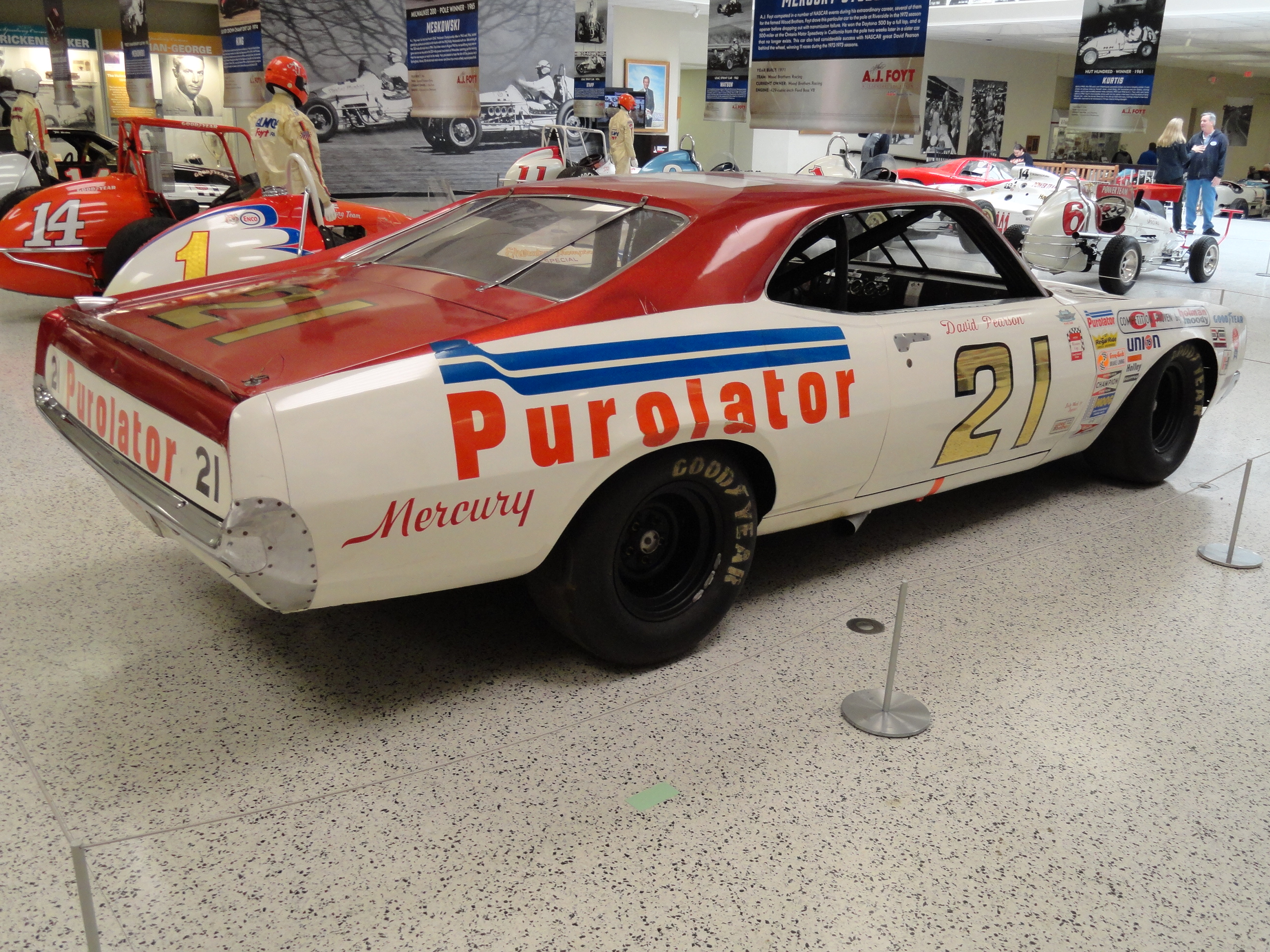 "A.J. Foyt: A Legendary Exhibition" at the Indianapolis Motor Speedway Museum